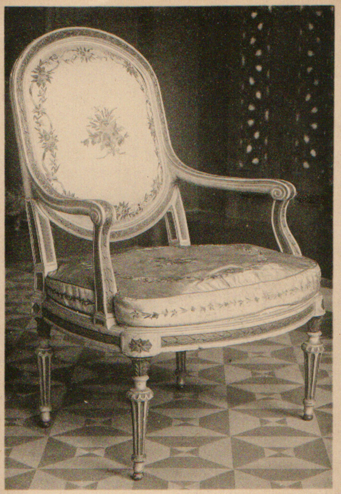 A neoclassical chair, foto from an old russian postcard